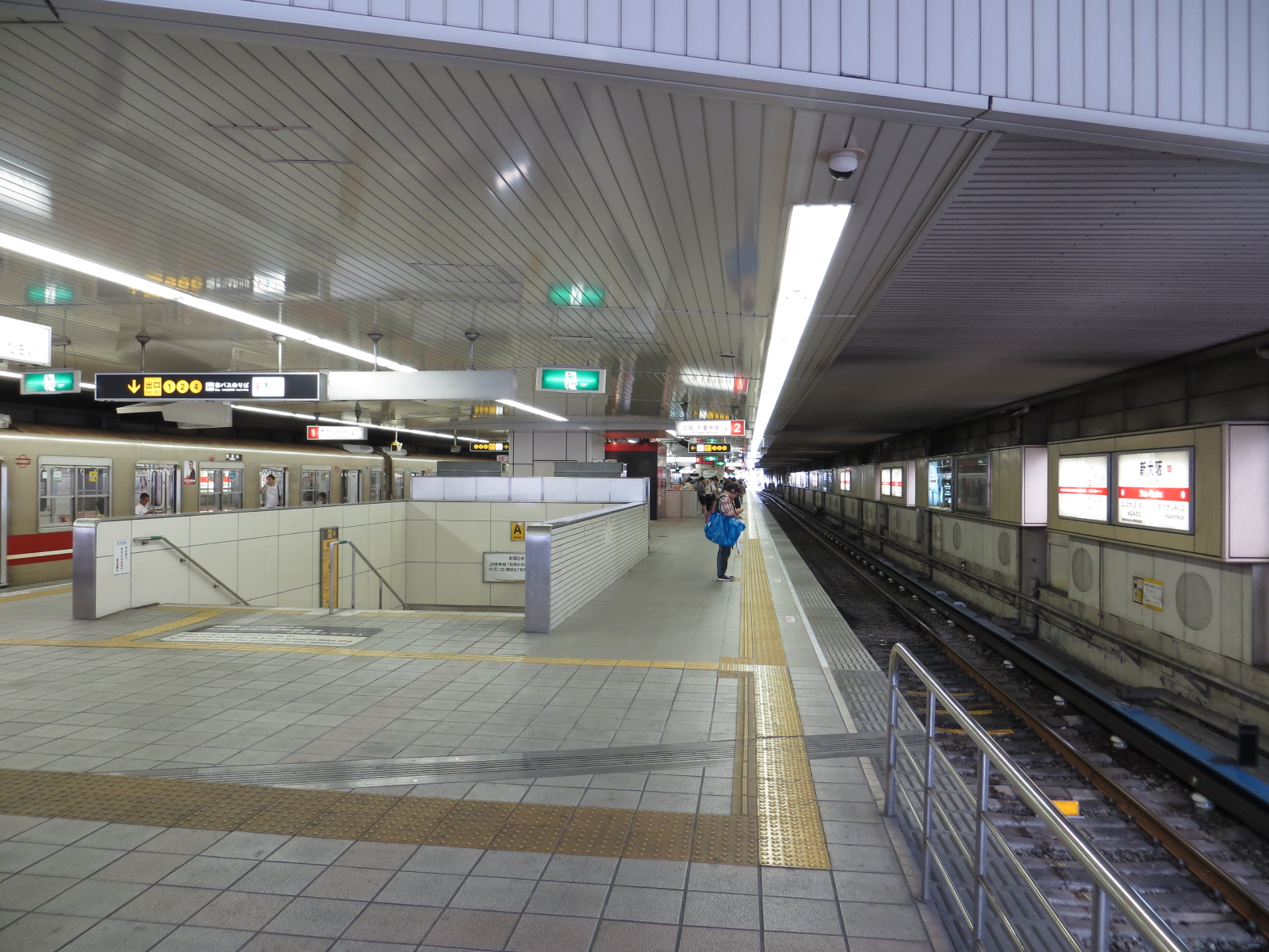 Shin-Ōsaka Station (M13) (Midōsuji Line).